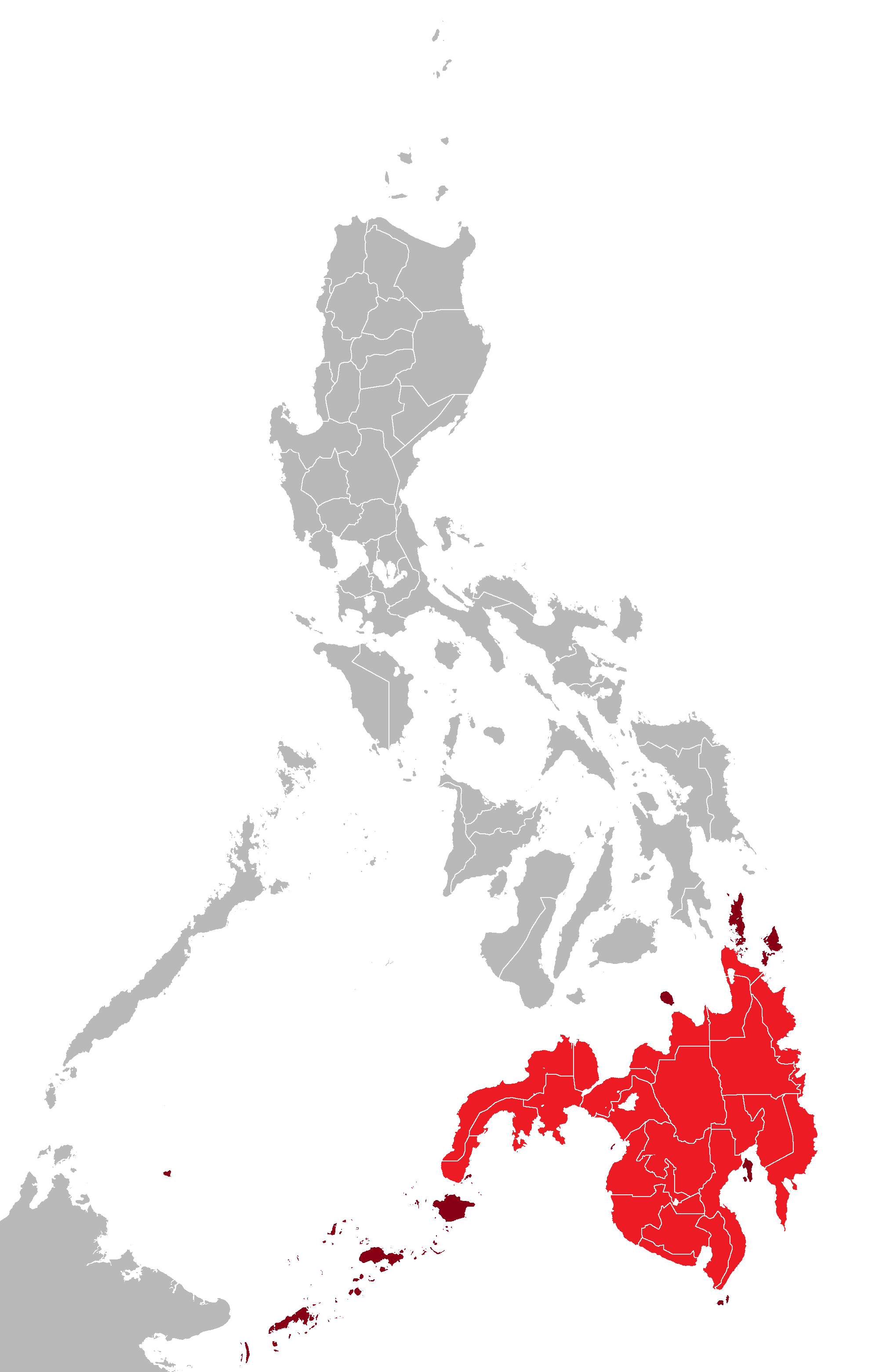 Derived from File:BlankMap-Philippines.png Map of Mindanao In green